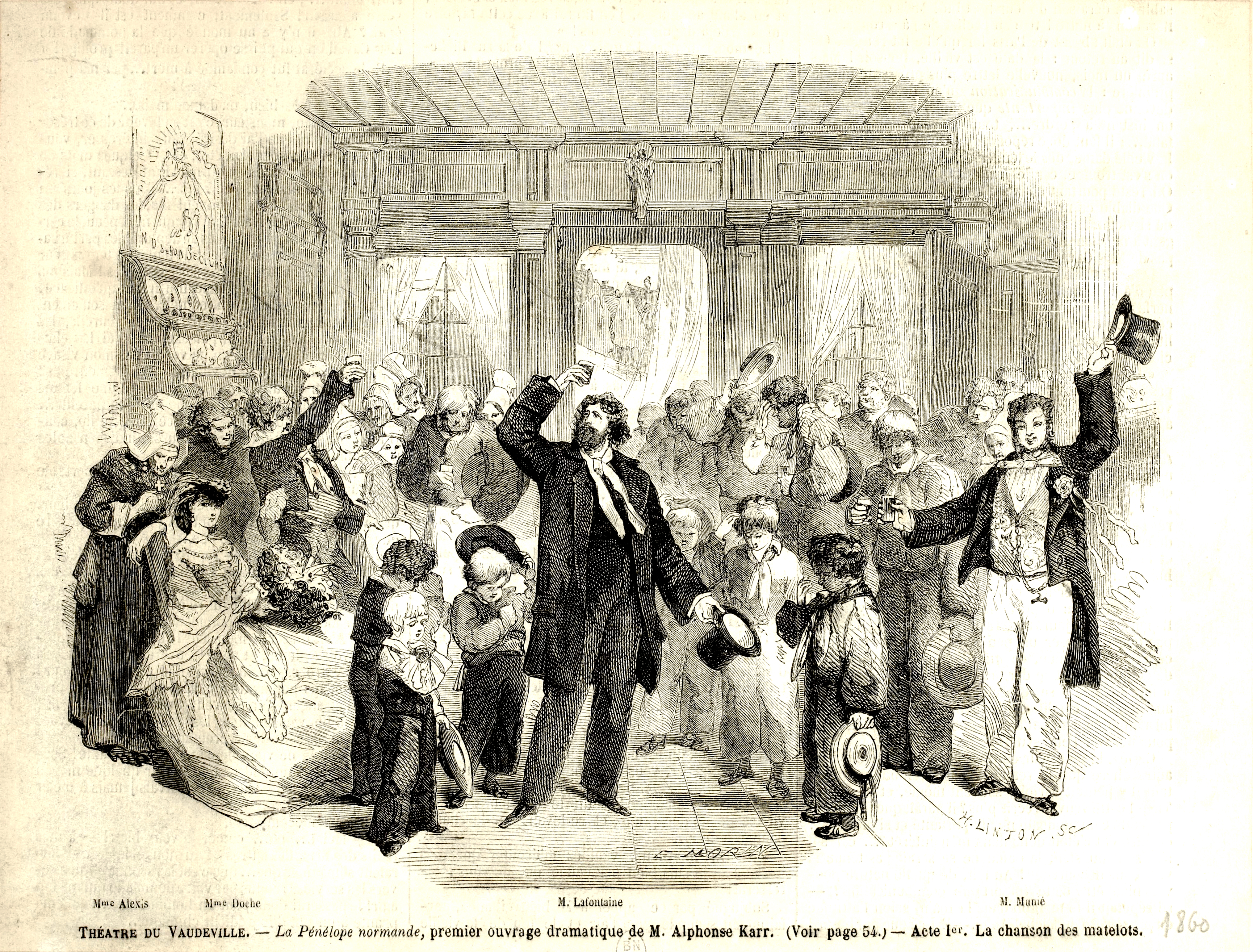 Engravings for La Pénélope normande a play by Alphonse Karr, Paul Siraudin, Lambert-Thiboust.